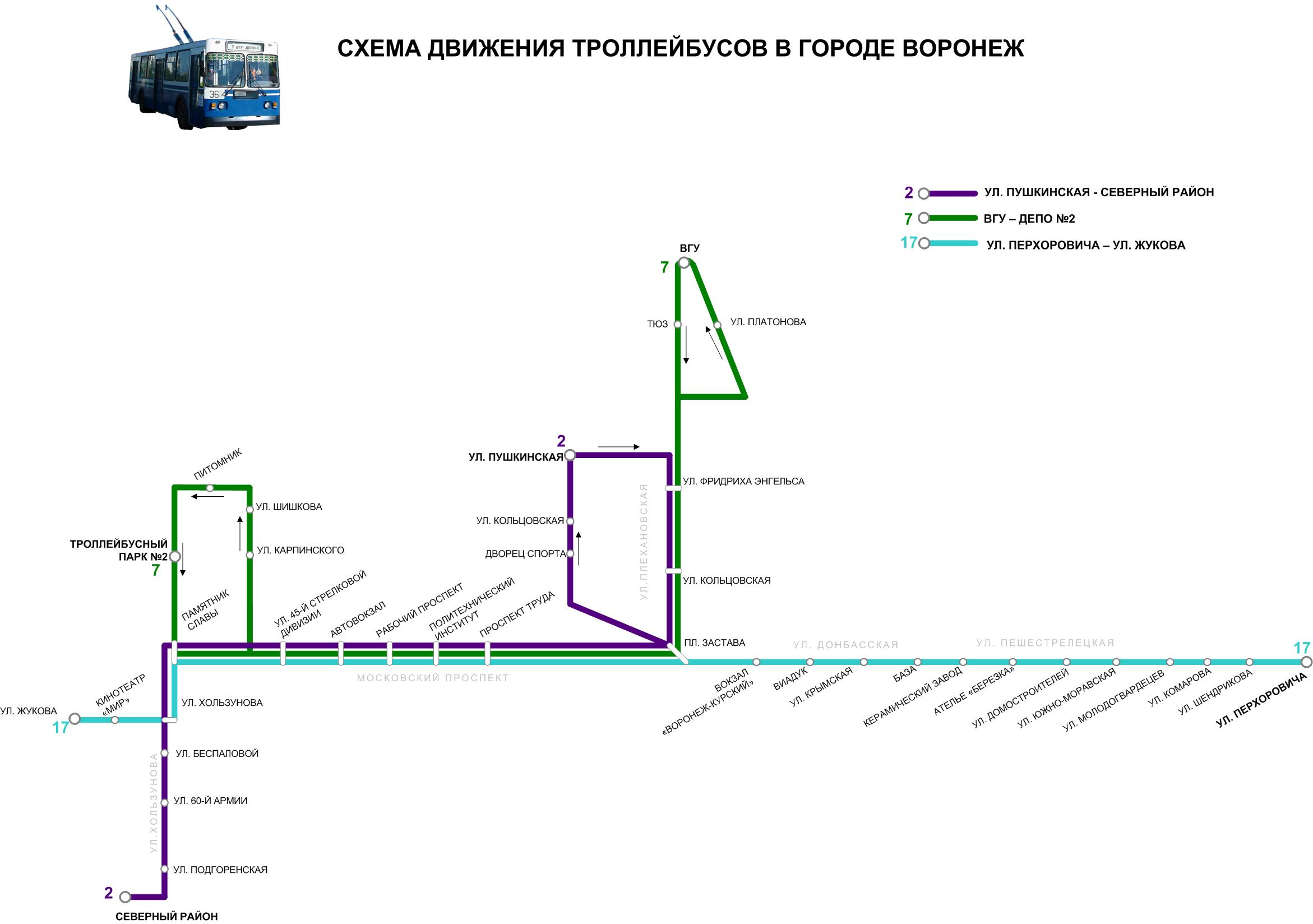 Scheme of Voronezh trolleybus lines as in 2006